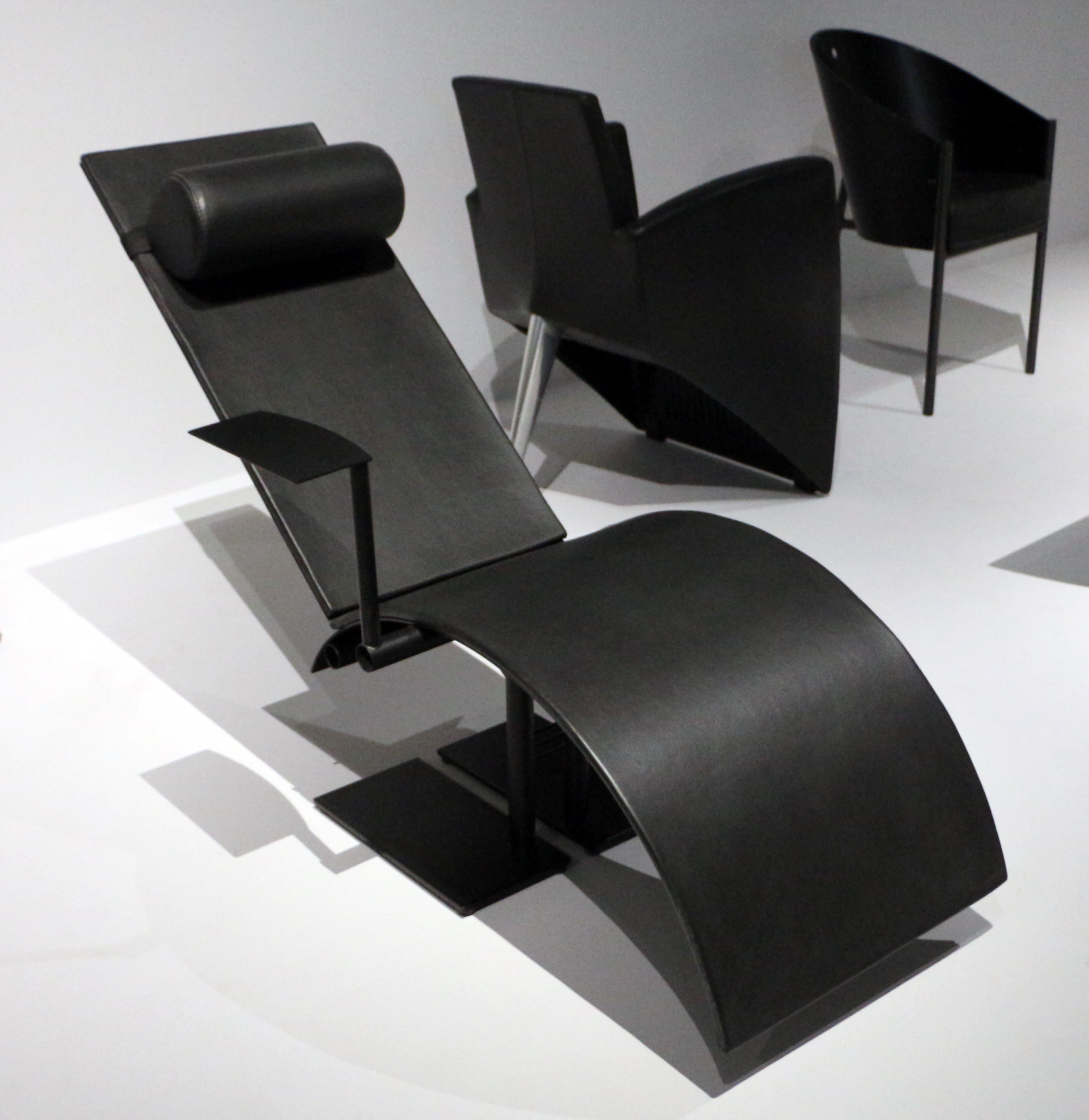 Decorative arts in the Musée national d'art moderne